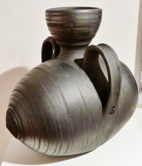 Black pottery of Llamas del Mouro (21st century), copying a traditional model of Spanish Northwest. Cangas de Narcea (Asturias), Spain.